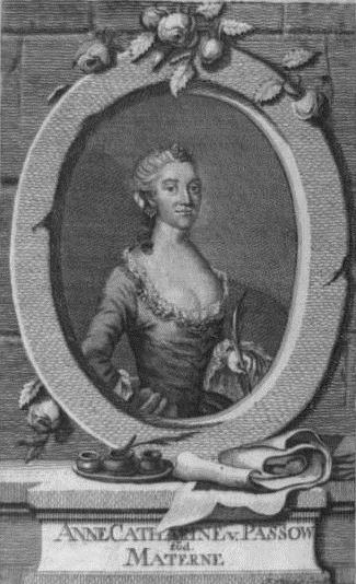 Portrait of Anna Catharina von Passow aka Jomfru Materna, Danish actress and play-write